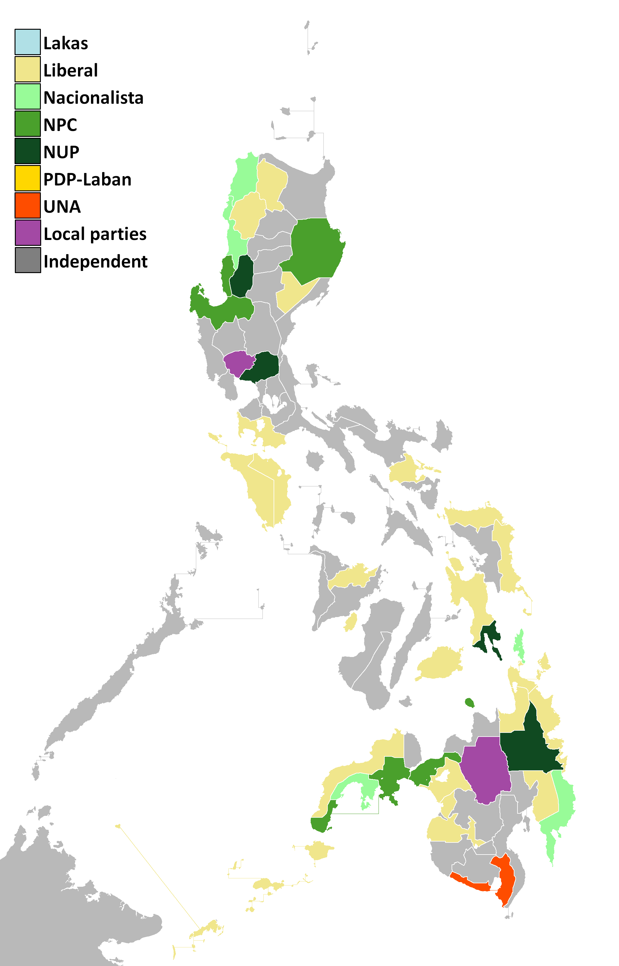 Results of the 2013 Philippine provincial board elections.